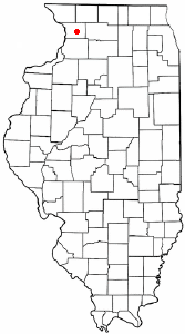 Category:Illinois city locator maps